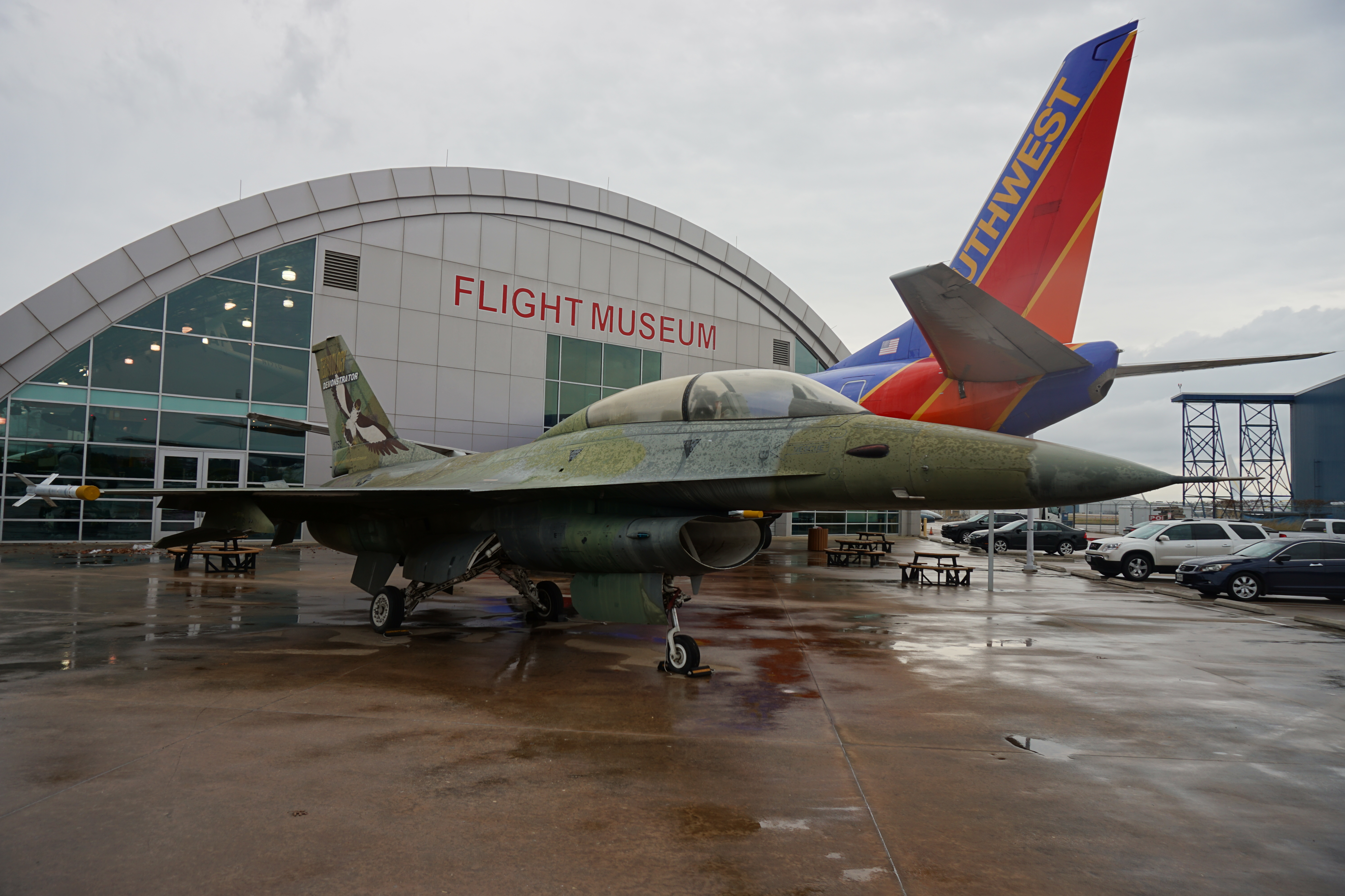 A General Dynamics F-16B Fighting Falcon on display at the Frontiers of Flight Museum at Dallas Love Field in Dallas, Texas (United States).